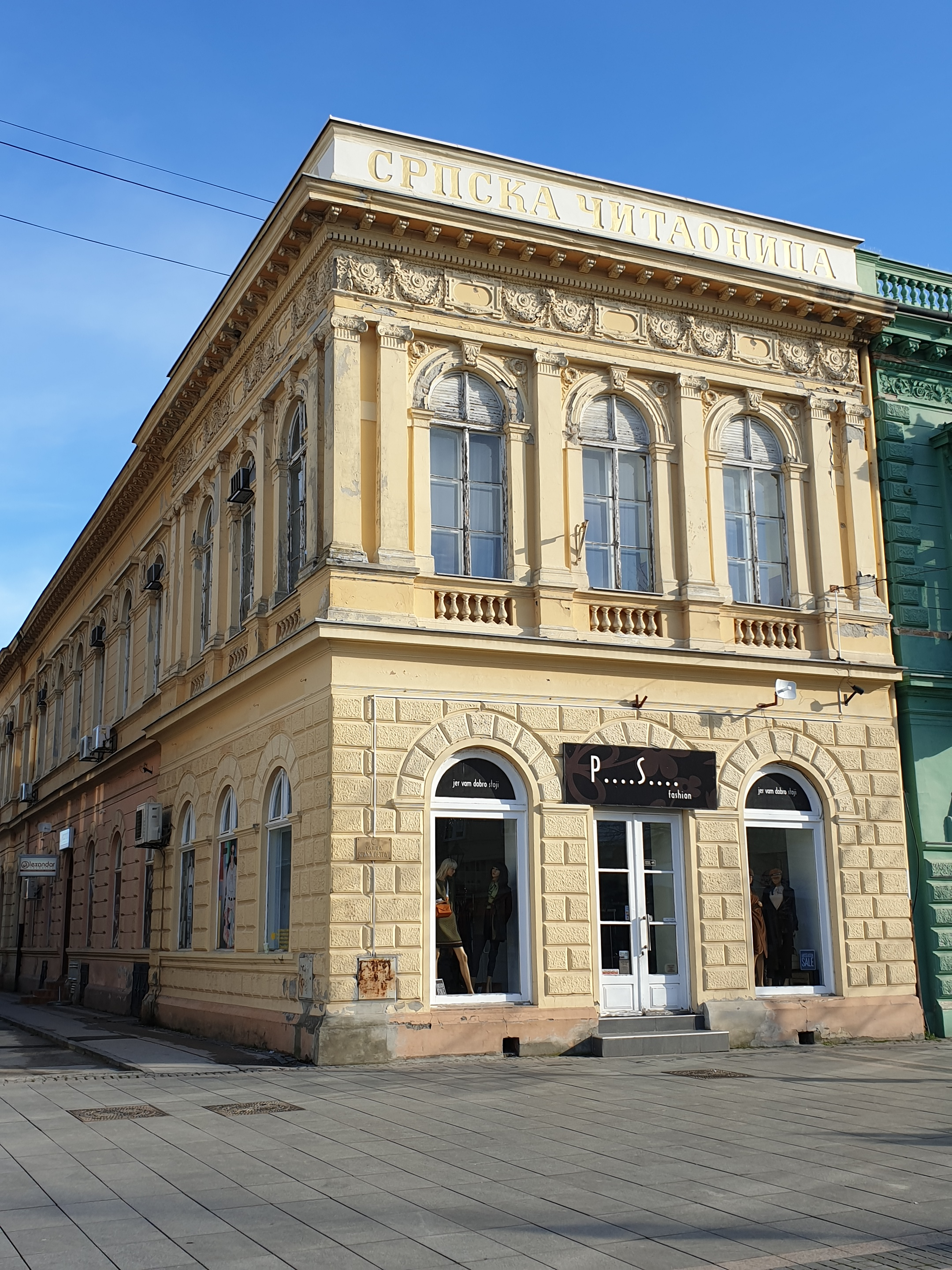 Srpska čitaonica